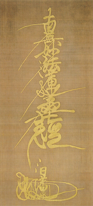 南無妙法蓮華経 by Hasegawa Tohaku, Daihoji, Takaoka, Toyama, Japan